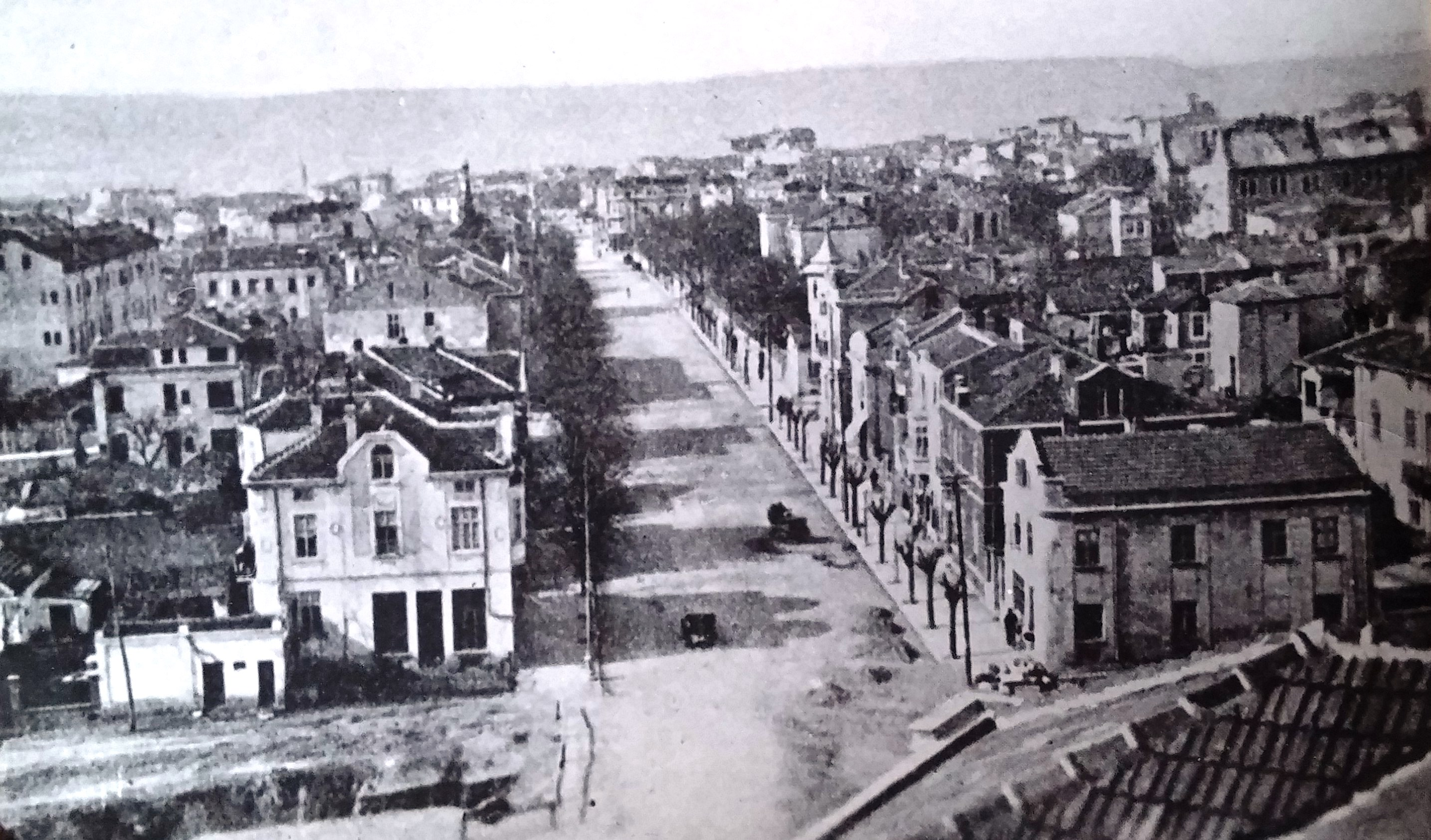 Varna. Photos of "Knyaz Boris" boulevard.